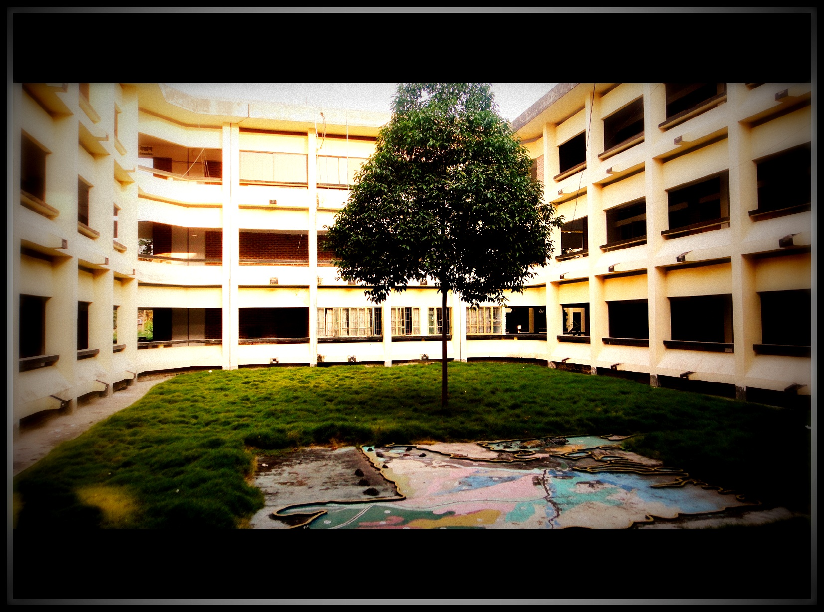 Inner Side Of Adninistrative Building Of HSTU & Agriculture Facuty